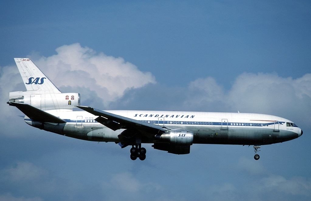 Scandinavian Airlines System Douglas DC-10-30 SE-DFD "Dag Viking" at Zurich International Airport